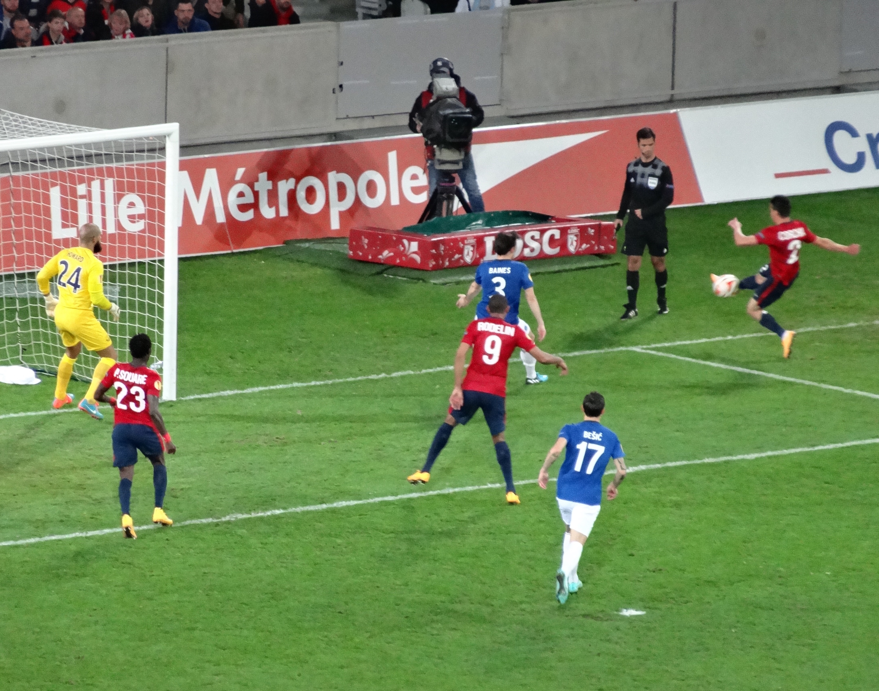 Assistant referee Lille - Everton